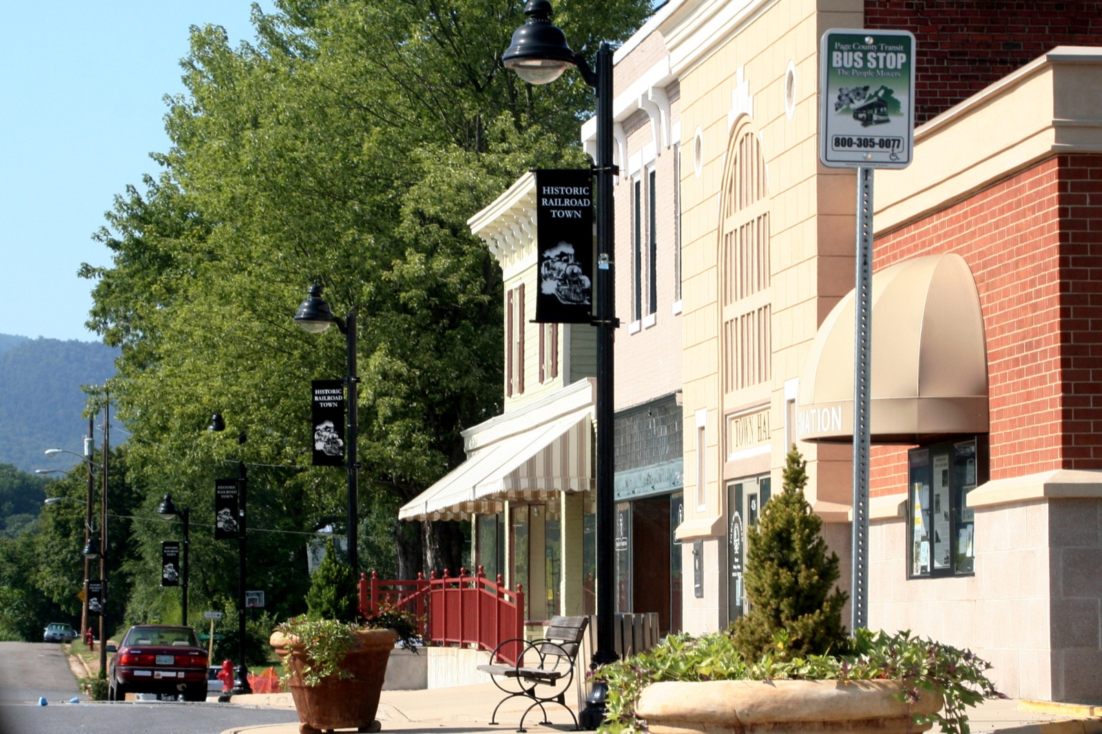 This is the block-long old downtown, apparently having gone an overhaul recently to revitalize it. Though nice-looking, every last storefront is empty.